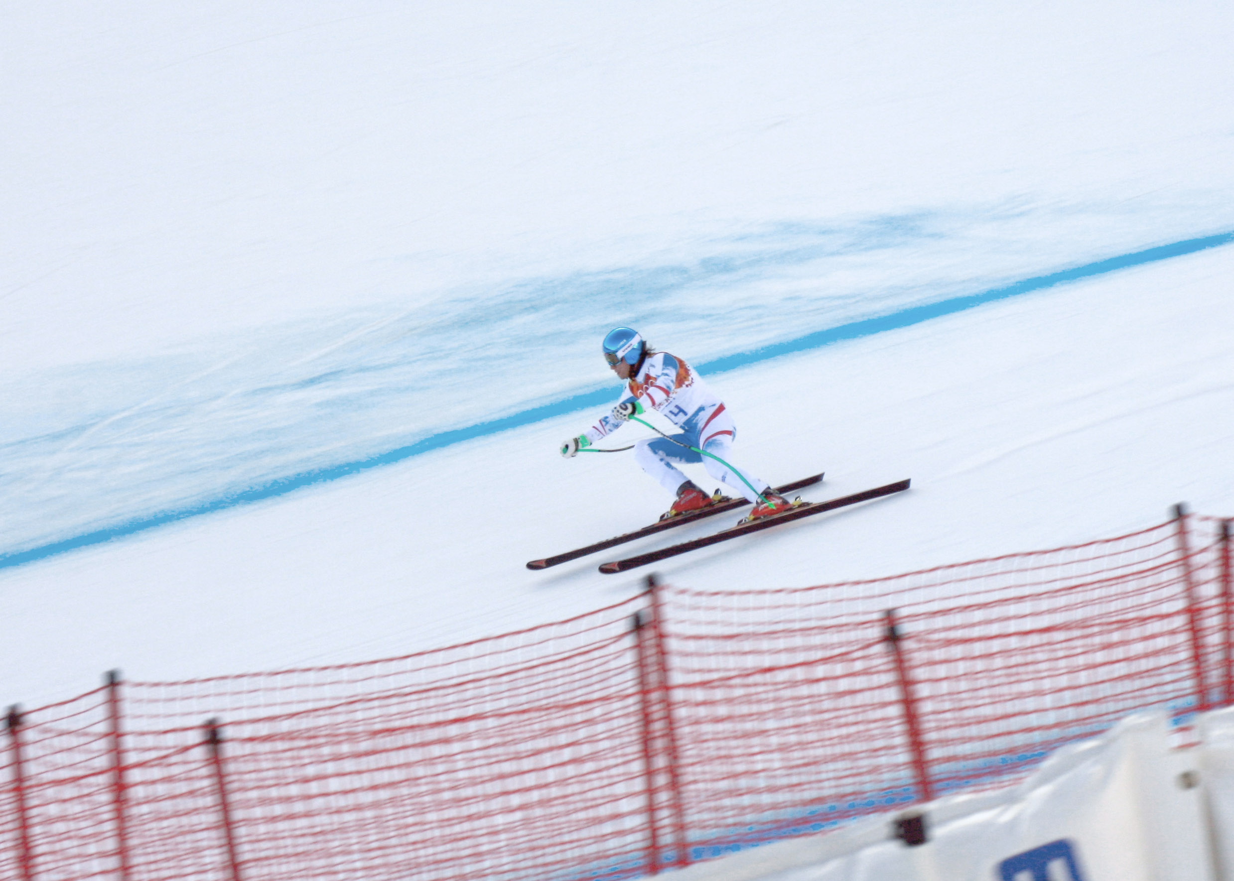 Matthias Mayer during the downhill race of the men's combined at the 2014 Winter Olympics in Sochi, Russia.